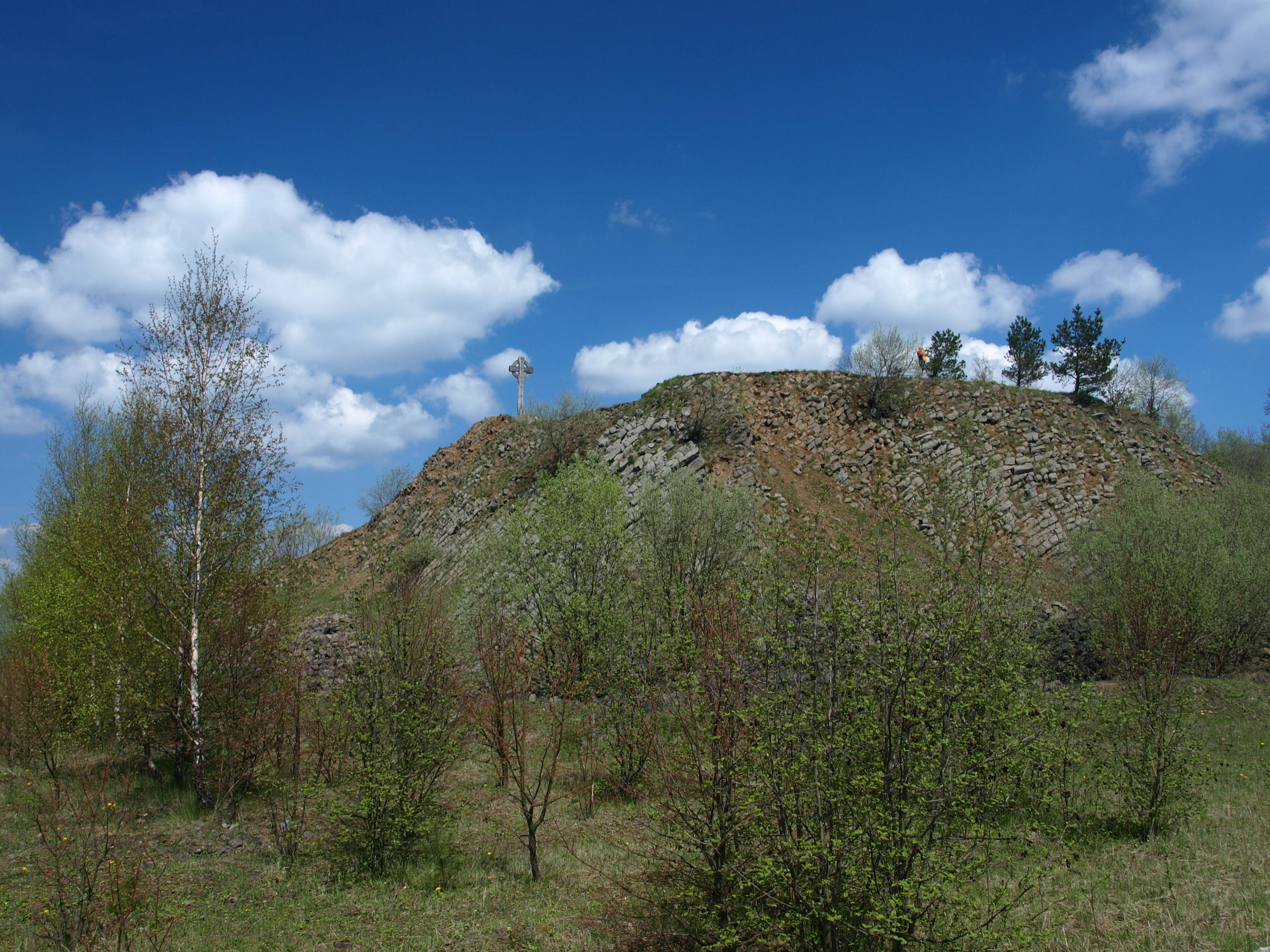 summit of the Öchsenberg in Rhön Mountains near Vacha